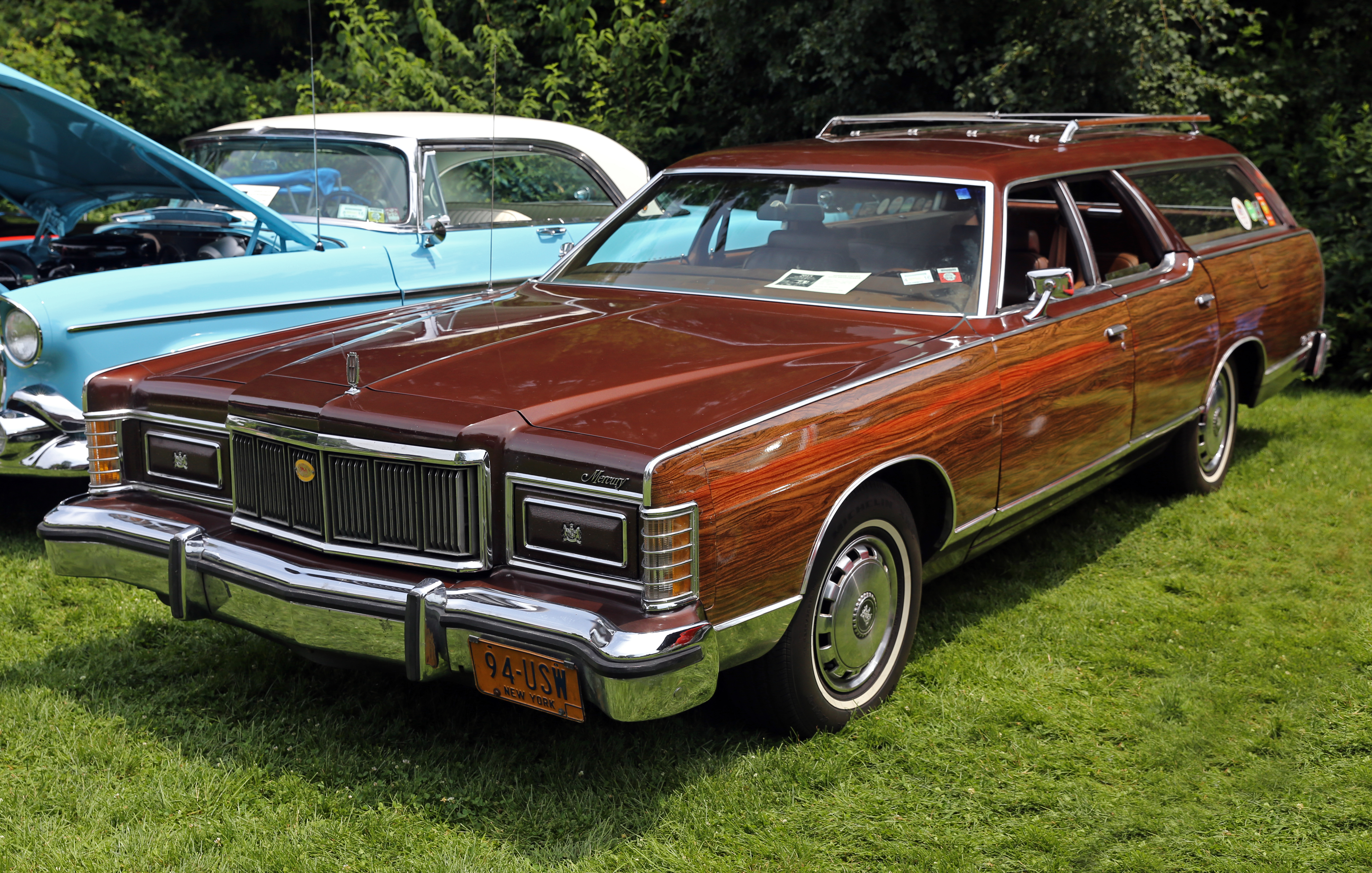 1978 Mercury Colony Park, the last year for the full-size station wagons from FoMoCo. Two-barrel 400ci (6.6L) V8, assembled in St. Louis, MO.